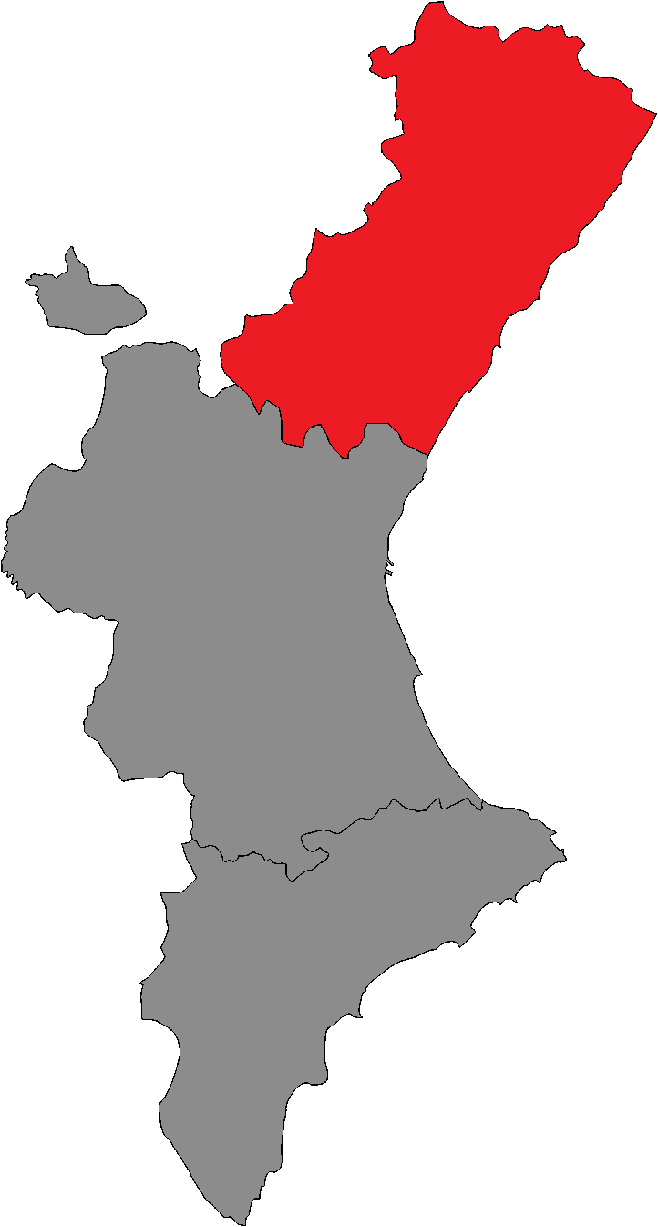 Valencian Courts district of Castellón.